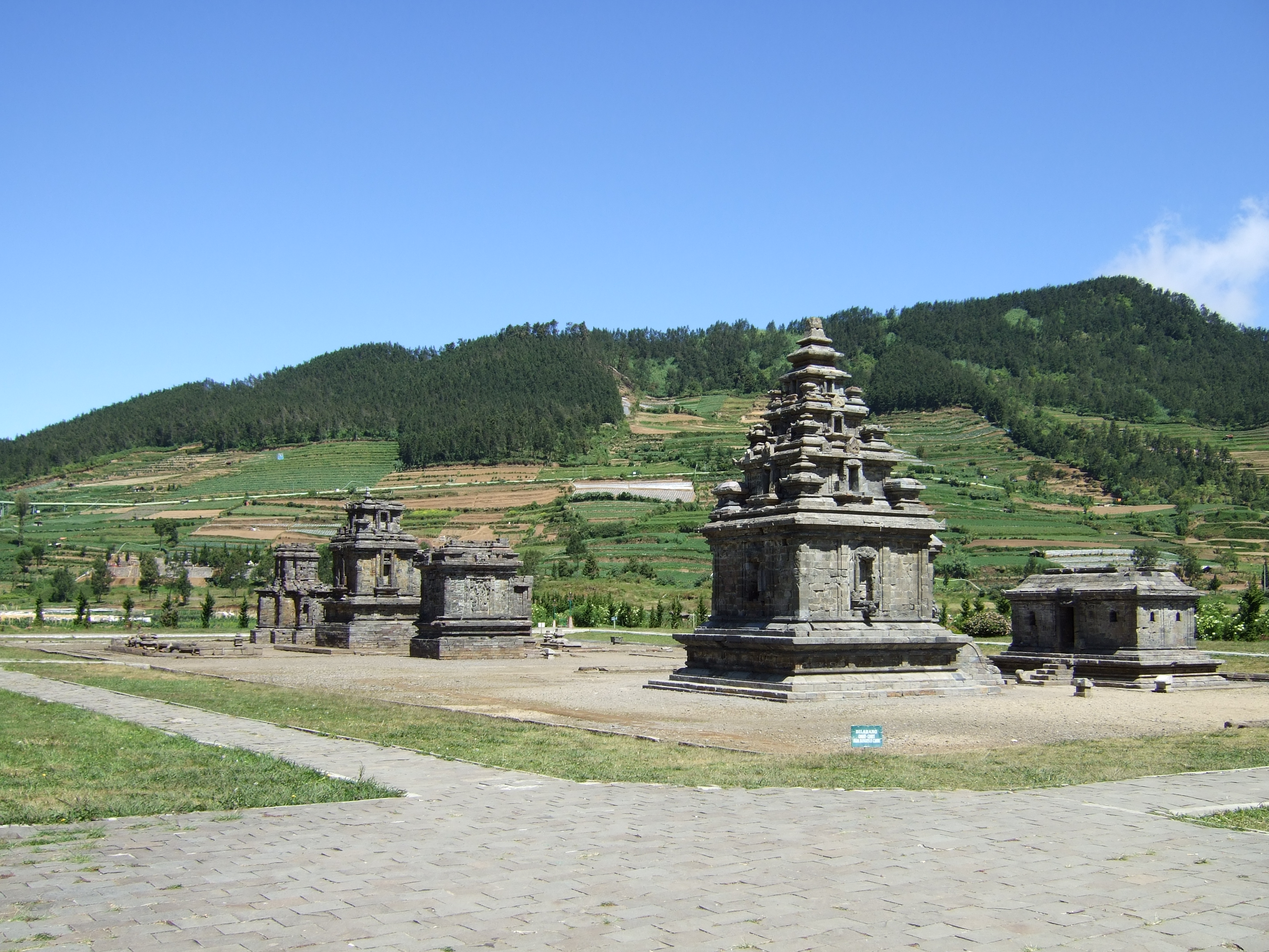 Complex of Candi Arjuna, Dieng Plateau, Central Java, Indonesia